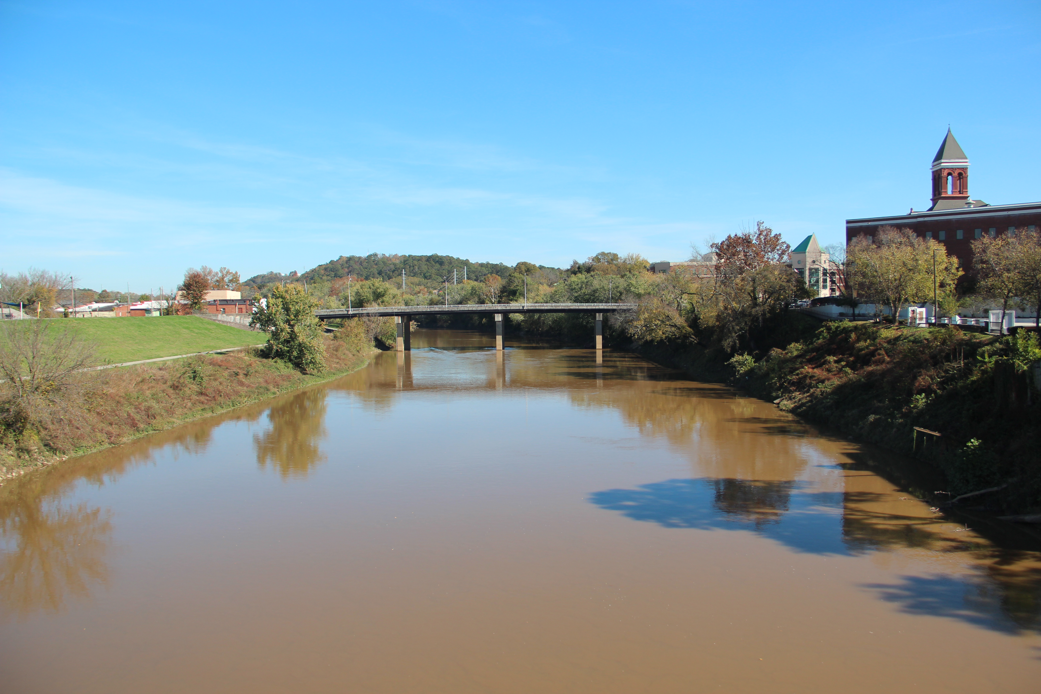 Etowah River, Rome, GA seen from the Chief John Ross bridge